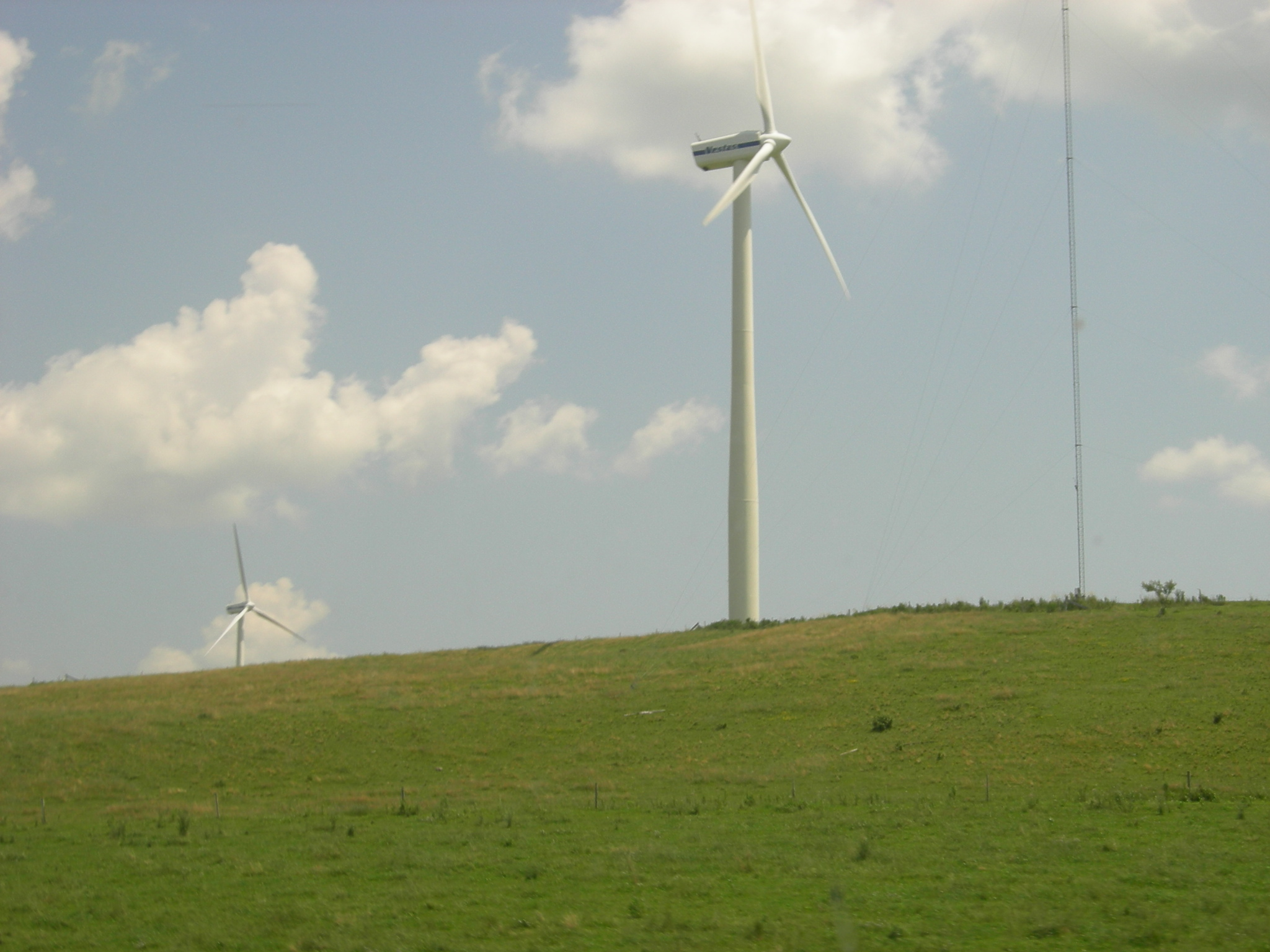 Photo of a wind turbine in the Madison Wind Farm taken by Sgt. bender